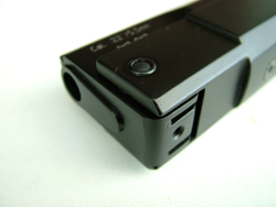 Photo Taken by David St.Clair